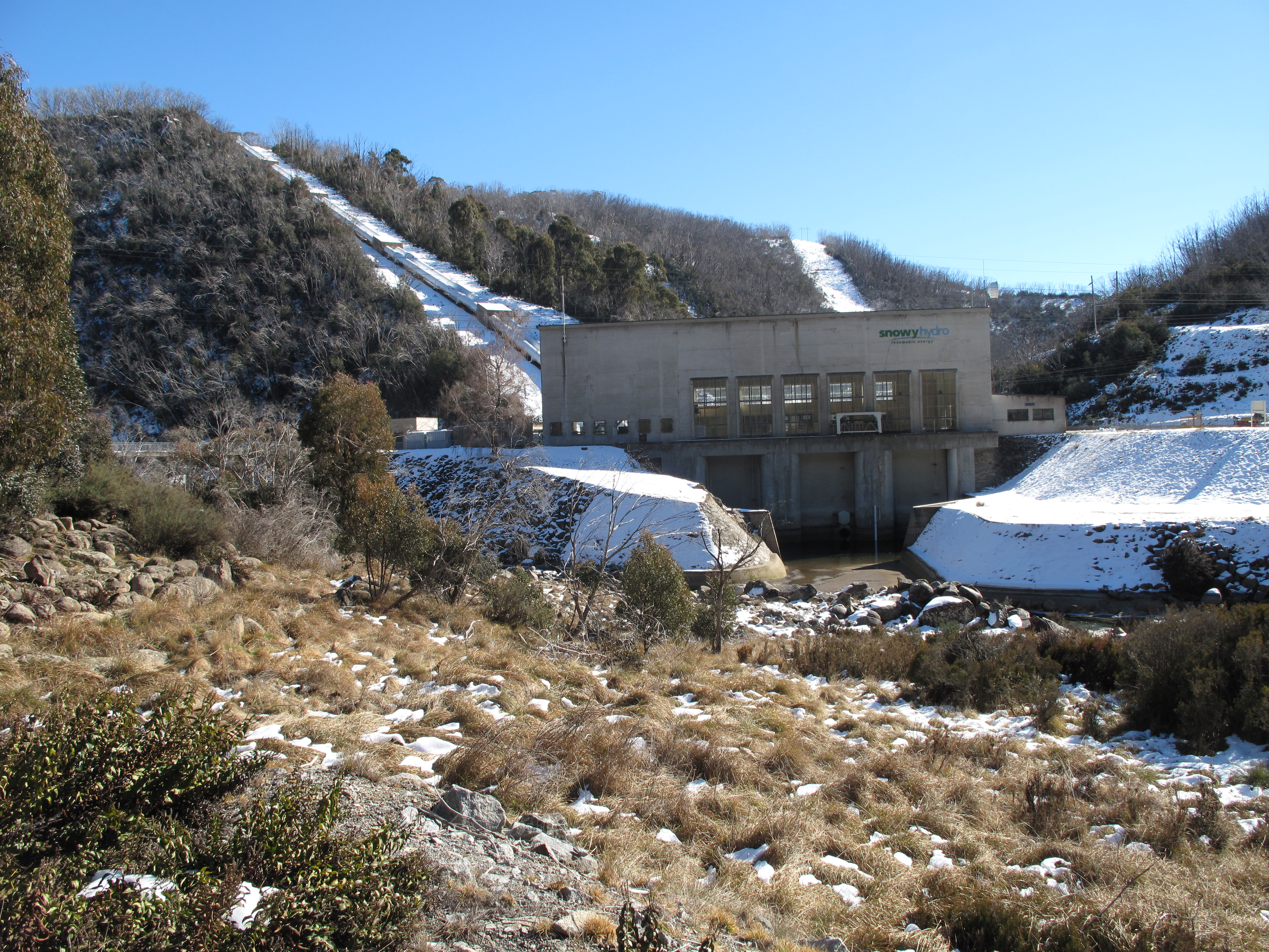 Guthega power station viewed from the visitors car park, Guthega, New South Wales, Australia